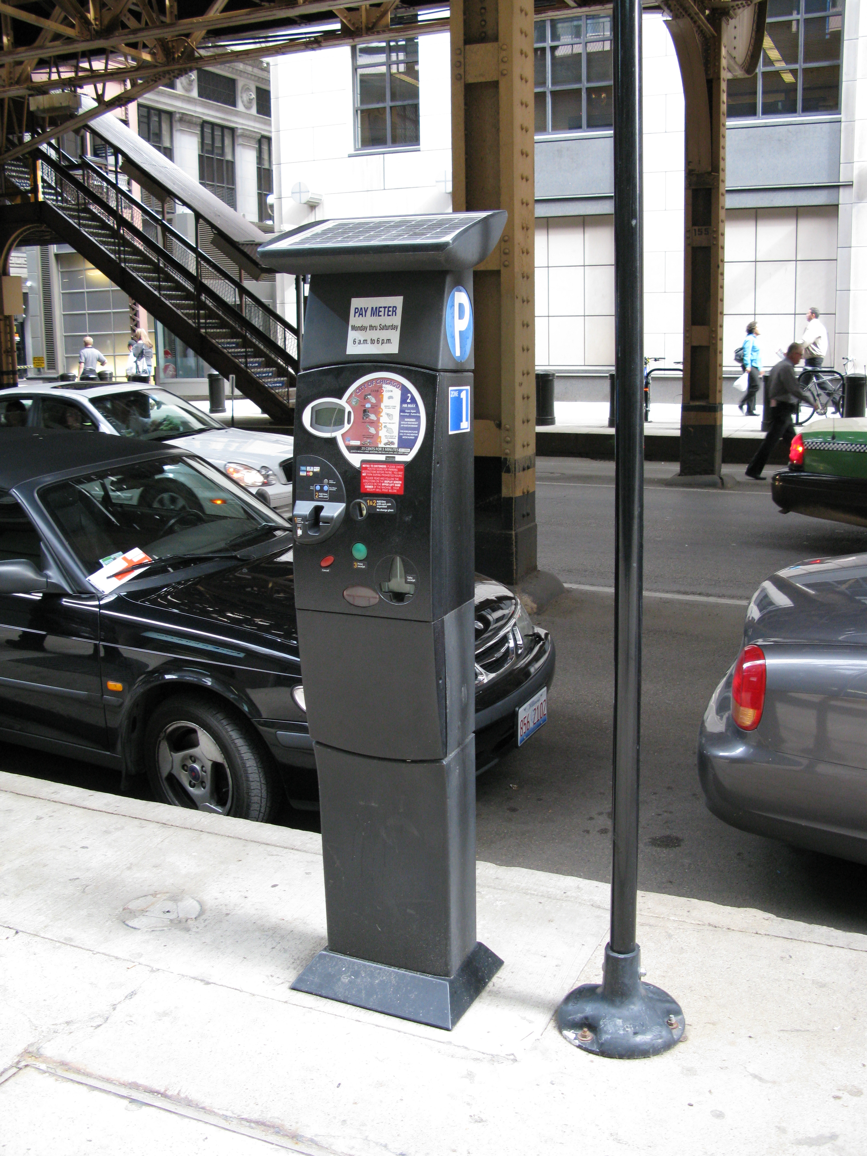 Parking meter, Chicago, Wells st.